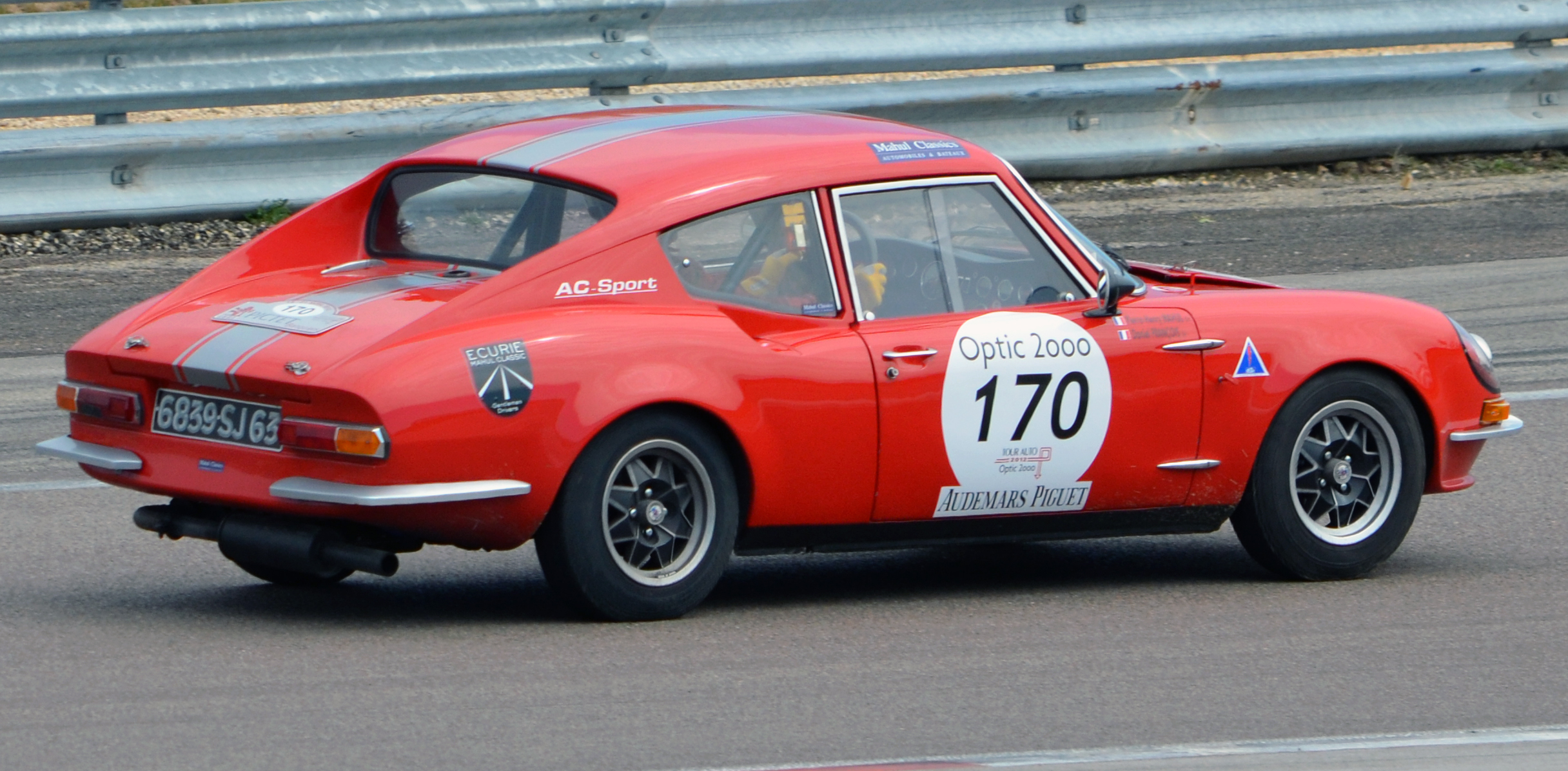 A C.G. B1200 (no. 170) at the Tour Auto 2012, at the Prenois circuit. Rear view, showing the Simca 1300/1500 taillights.